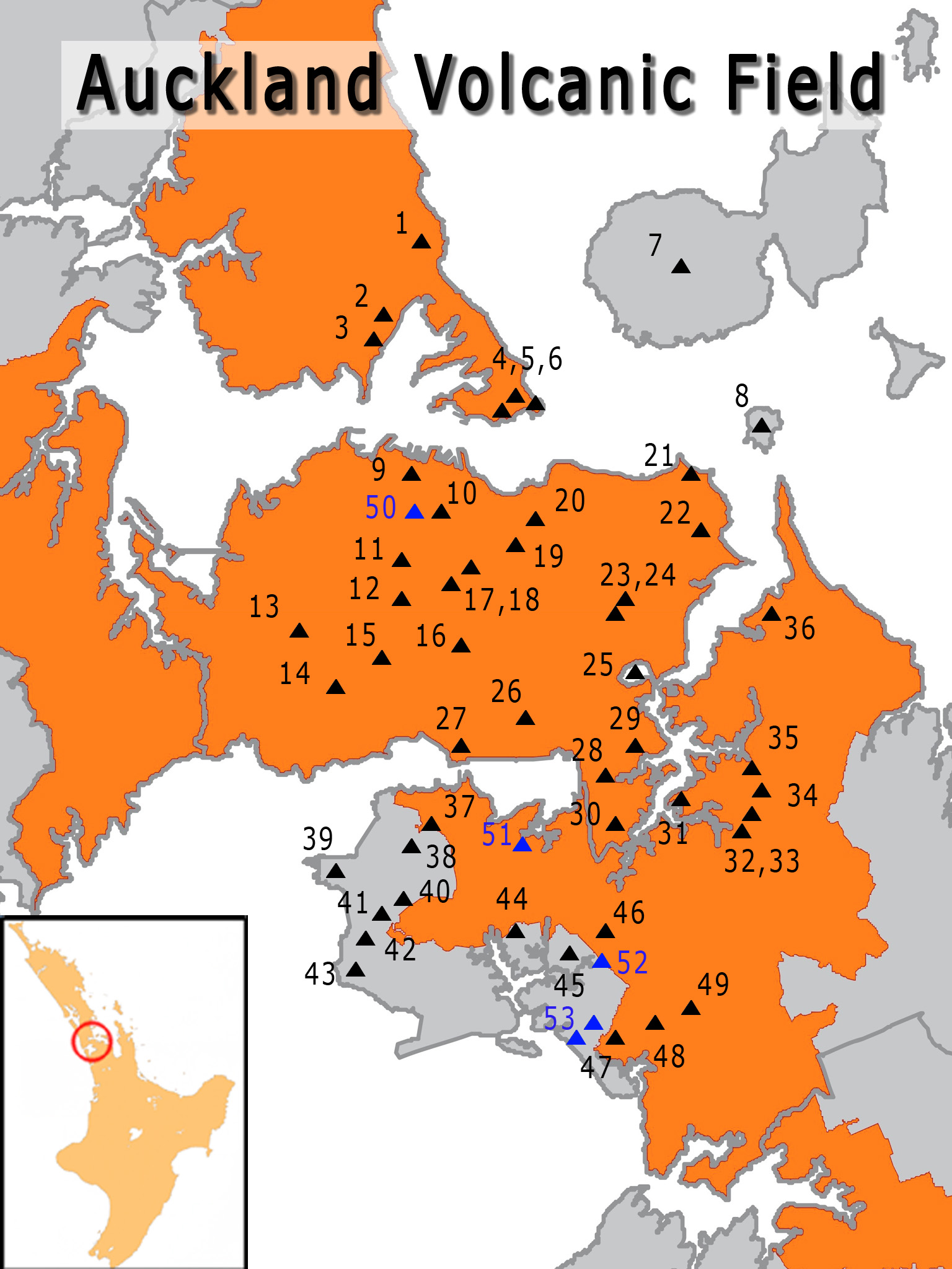 Auckland Volcanic Field Map